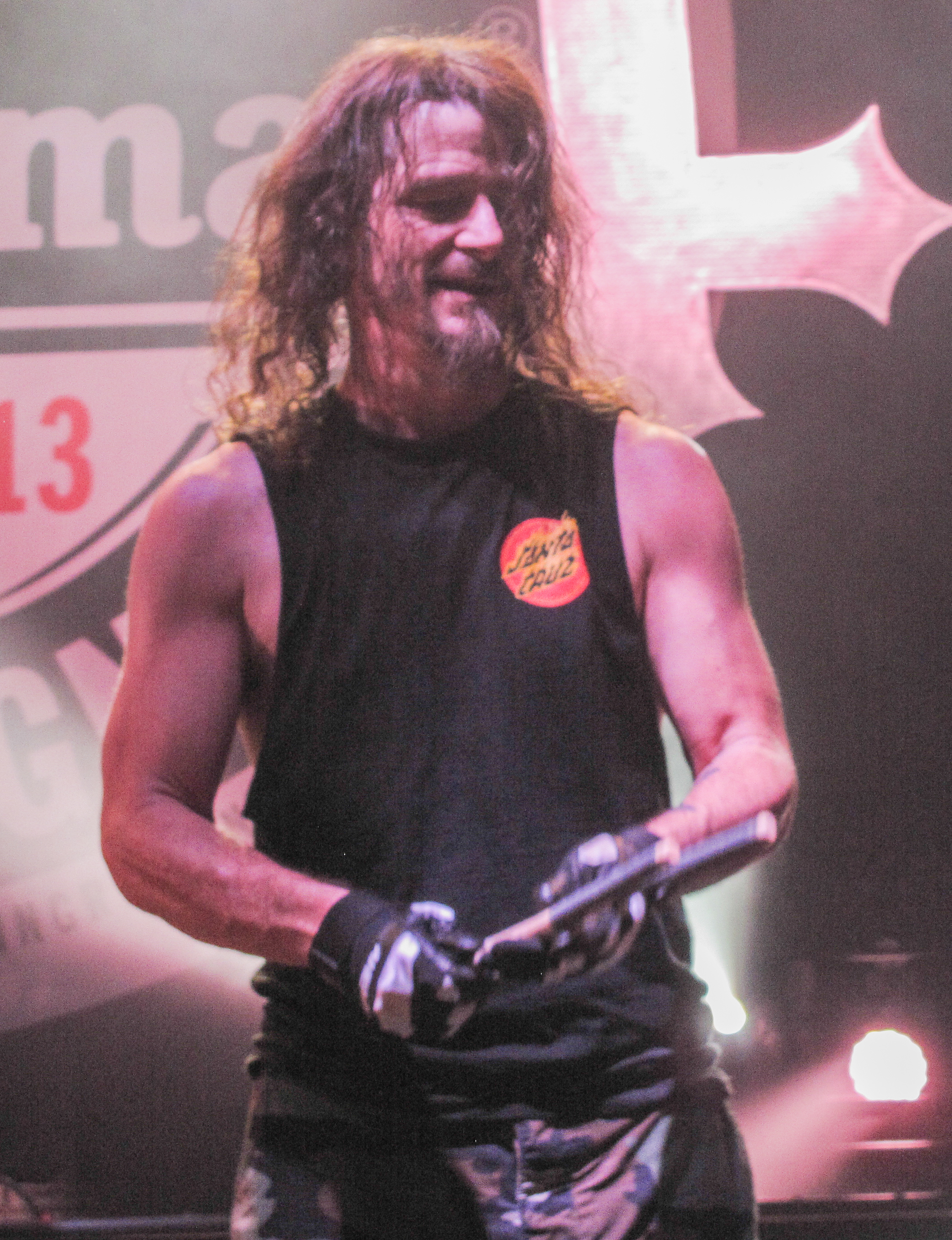 Paul Bostaph with Slayer at the Madison Square Garden on November 27, 2013